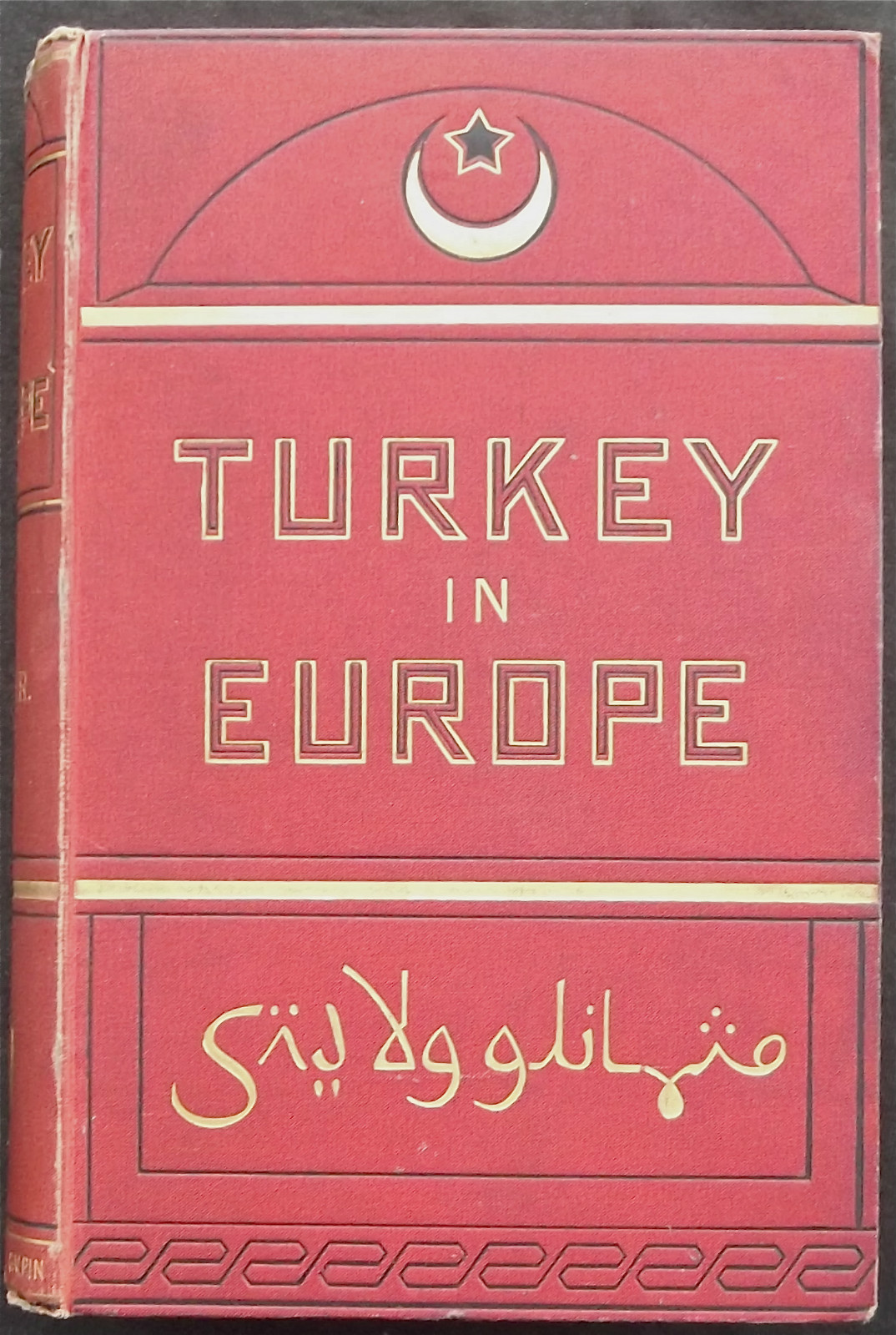 Turkey in Europe